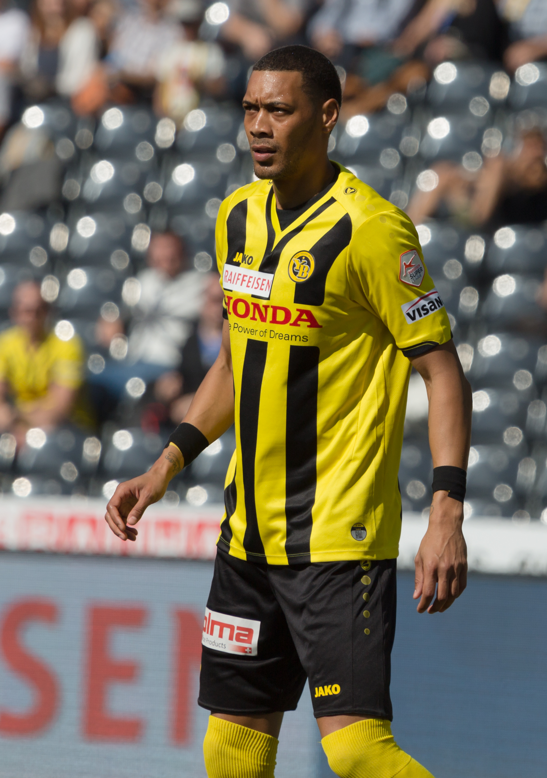 Hoarau with Young Boys